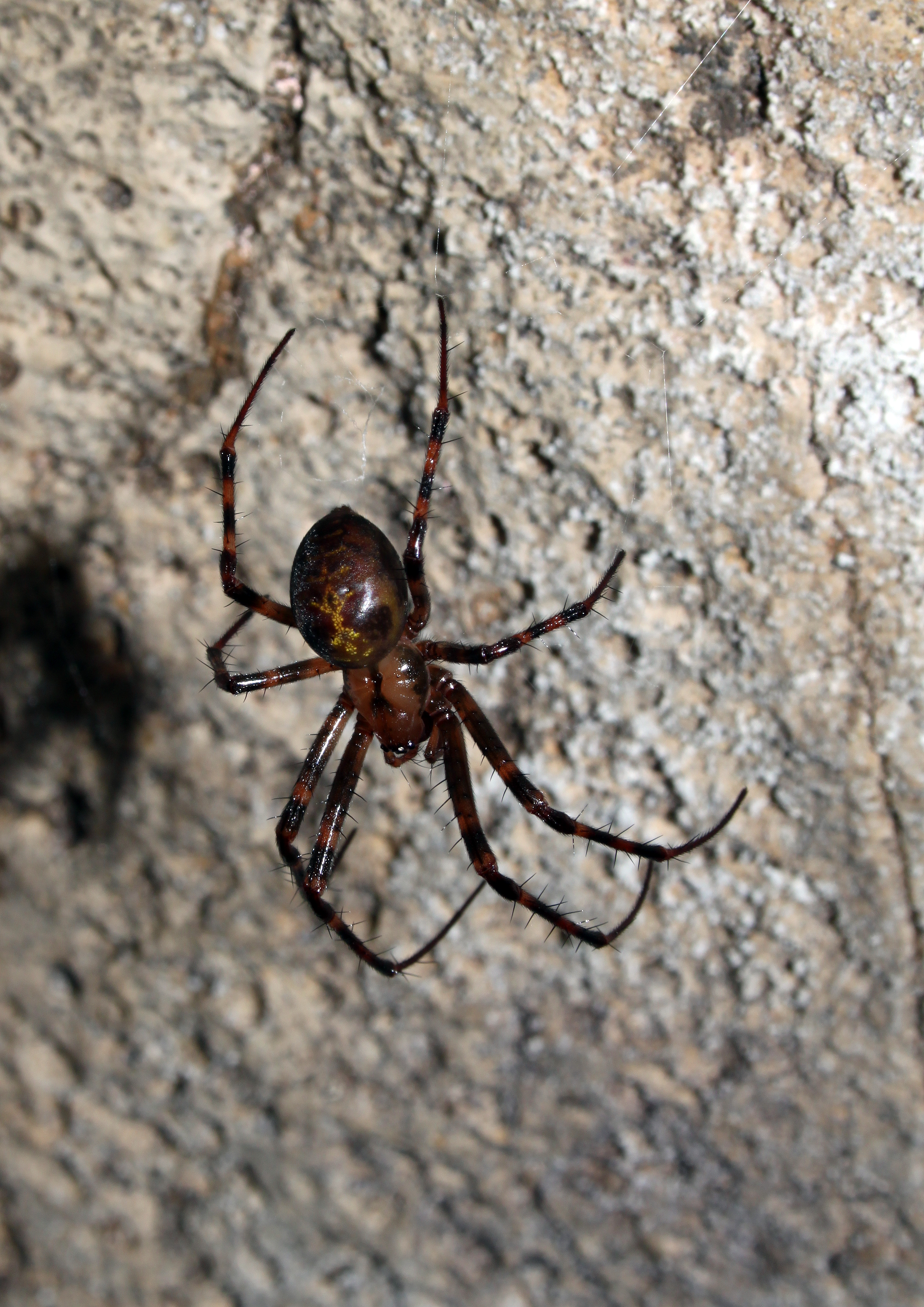 Female European cave spider, Orbweaving cave spider or Cave orbweaver, Meta menardi, Family: Tetragnathidae, Location: Southern Germany, Grabenstetten, entrance area Falkensteiner Höhle